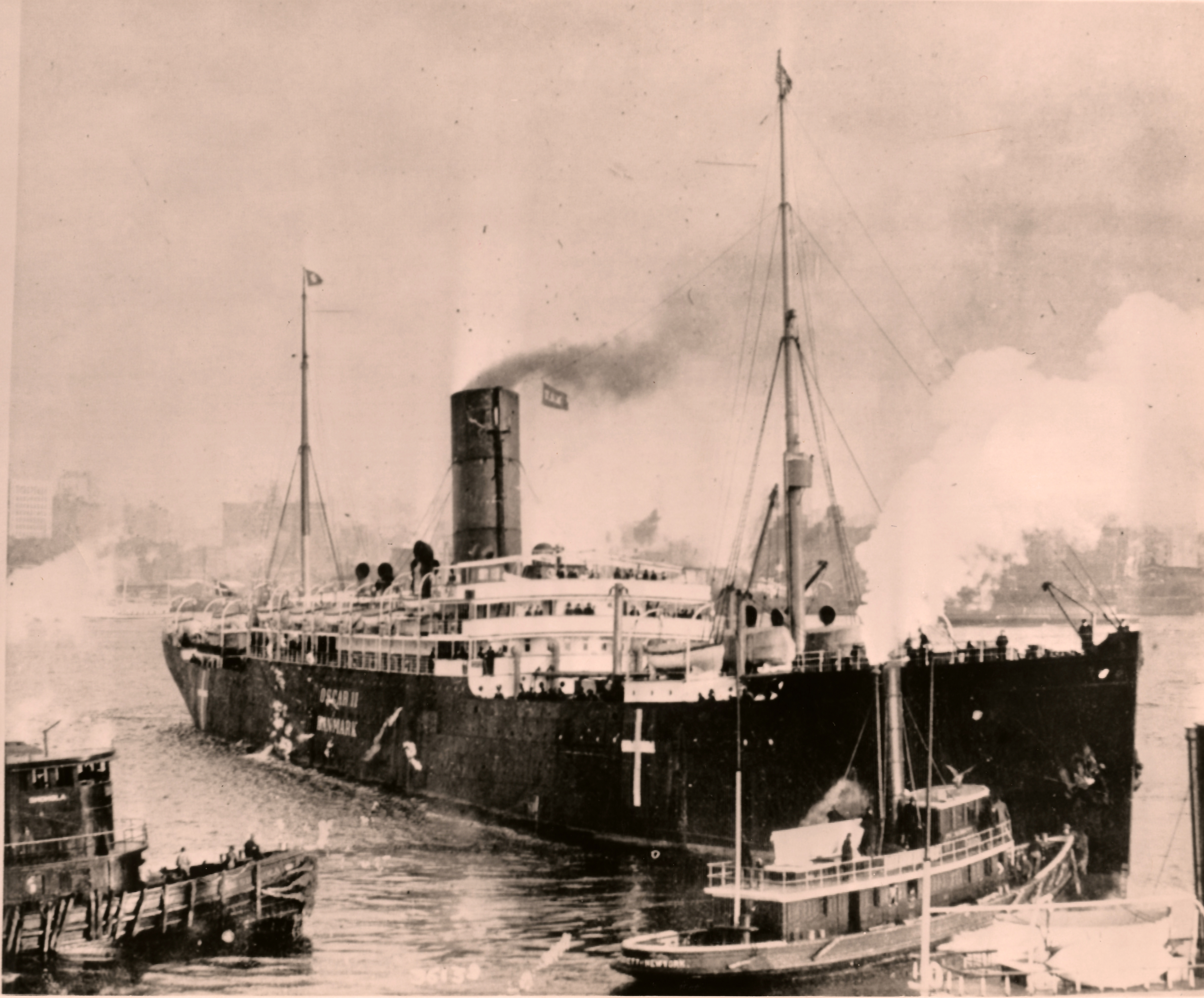 Scandinavia – America Line passenger steamship Oscar II leaving New York as the Peace Ship on December 4, 1915